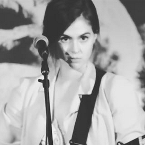 Singer Vera Sola at Desert Nights in Los Angeles, California.